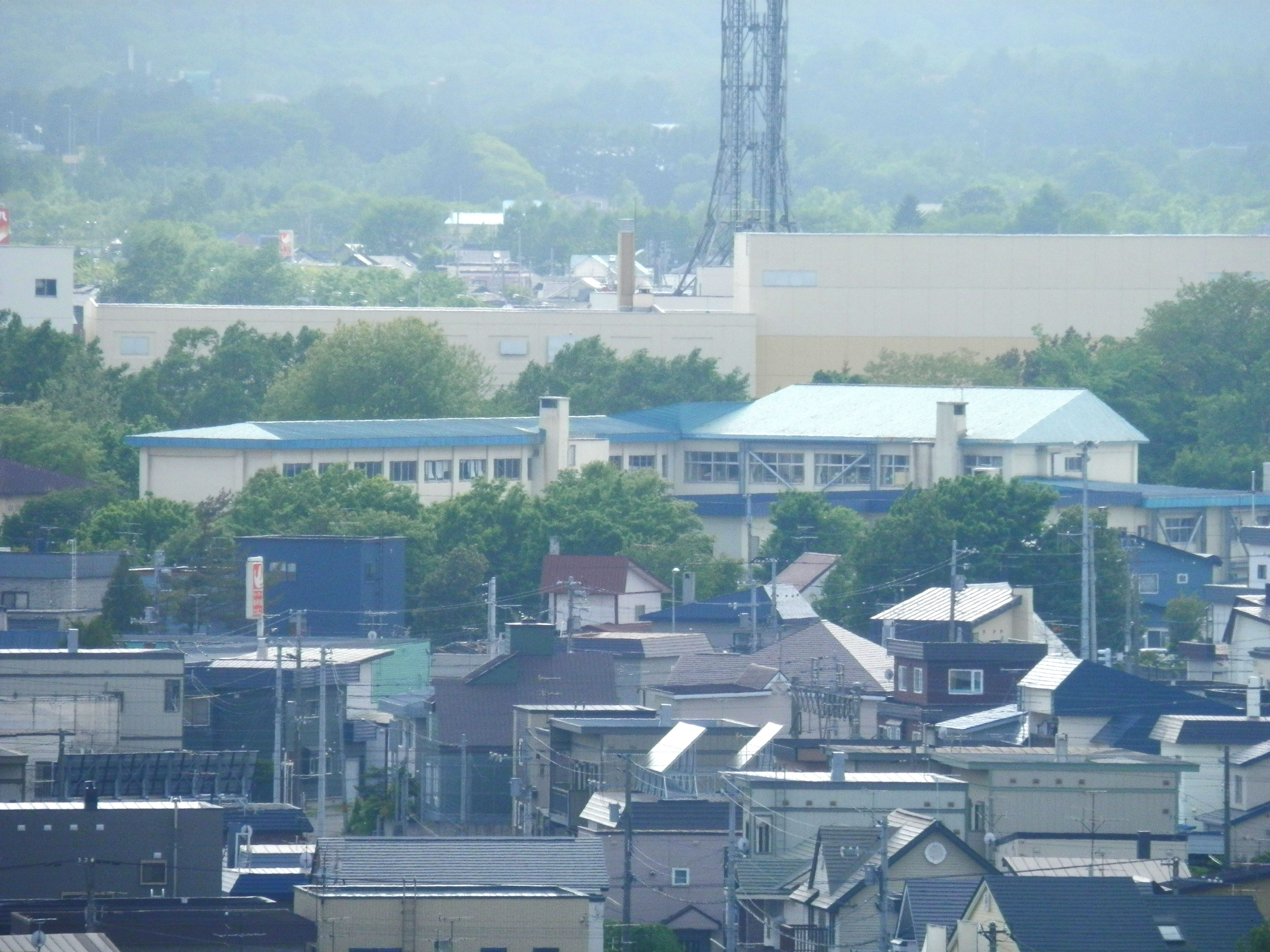 Eniwa Elementary School in Eniwa, Japan